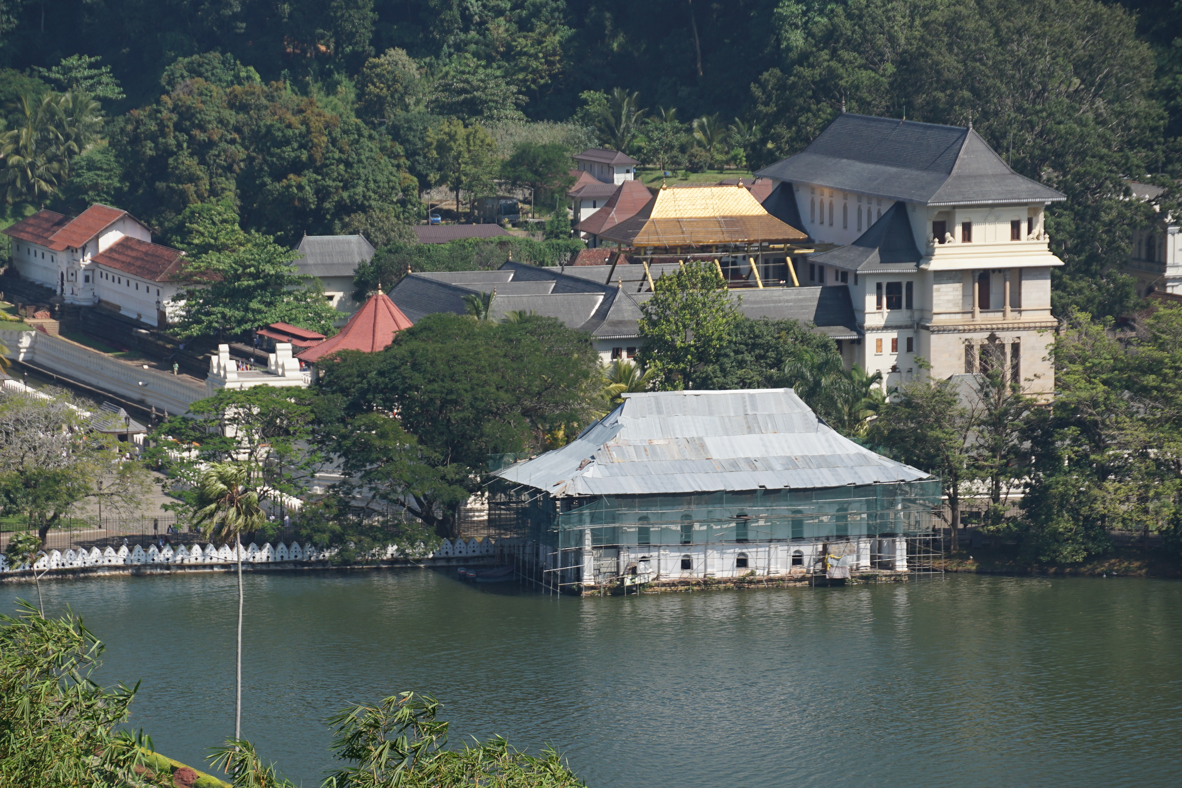 Kandy Lake, also known as Kiri Muhuda or the Sea of Milk, is an artificial lake in the heart of the hill city of Kandy, Sri Lanka, built in 1807 by King Sri Wickrama Rajasinghe next to the Temple of the Tooth.